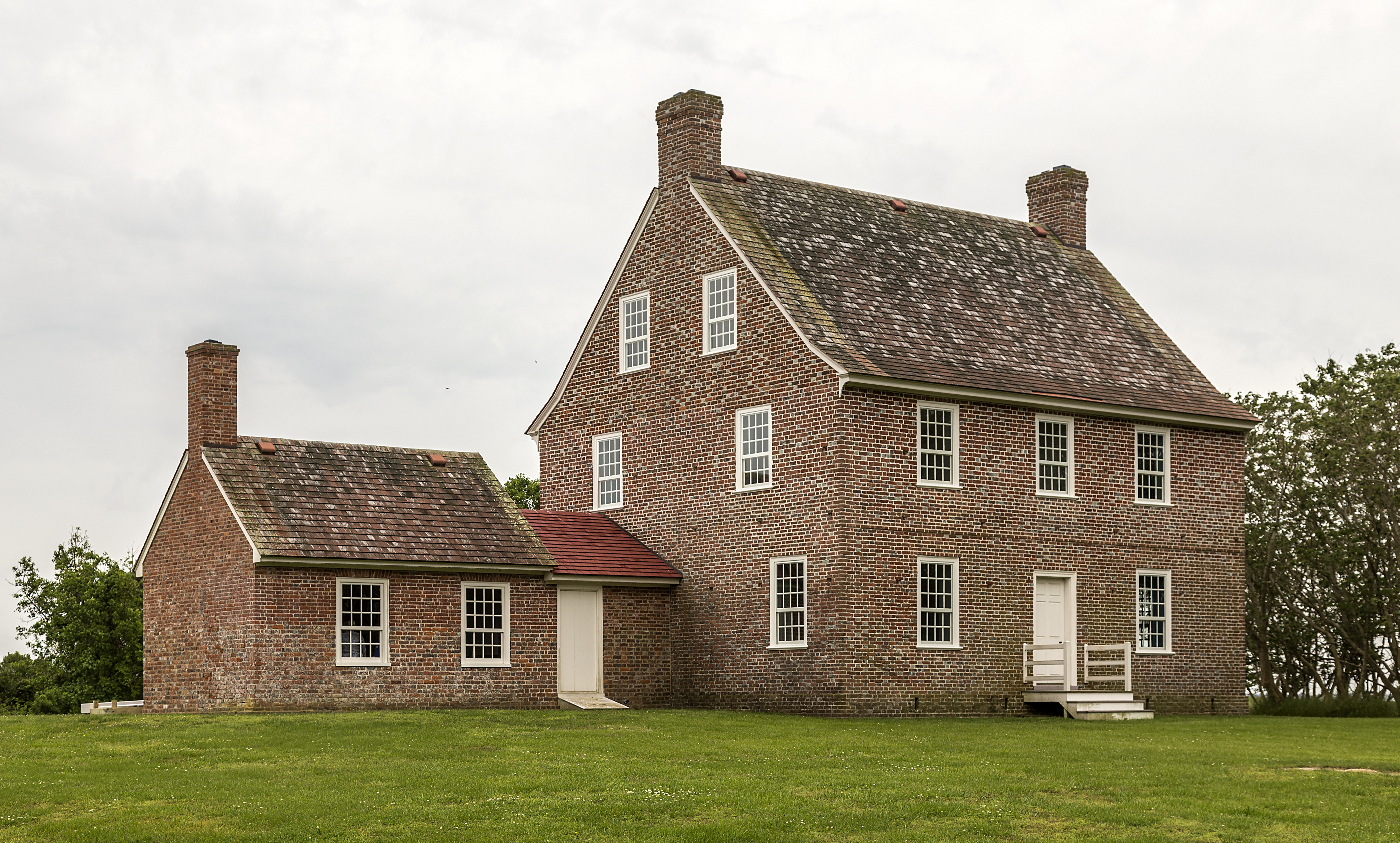 Rackliffe House, Assateague Island State Park, near Berlin, Maryland, USA.